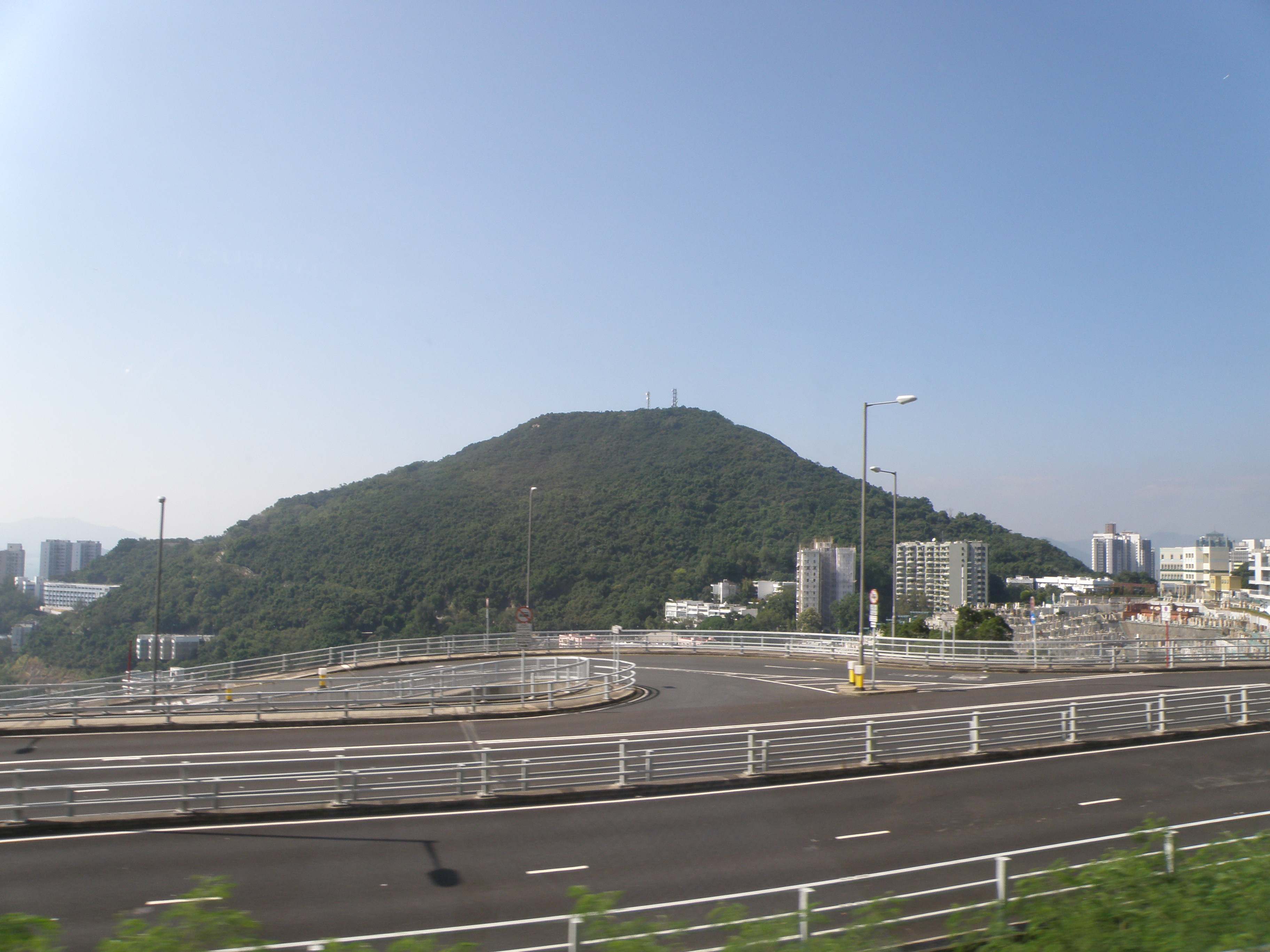 Mount Davis in Hong Kong.